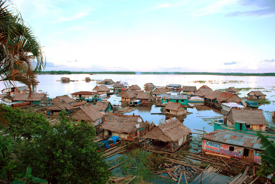 Amazon River floating village neighborhood in Iquitos, Peru.